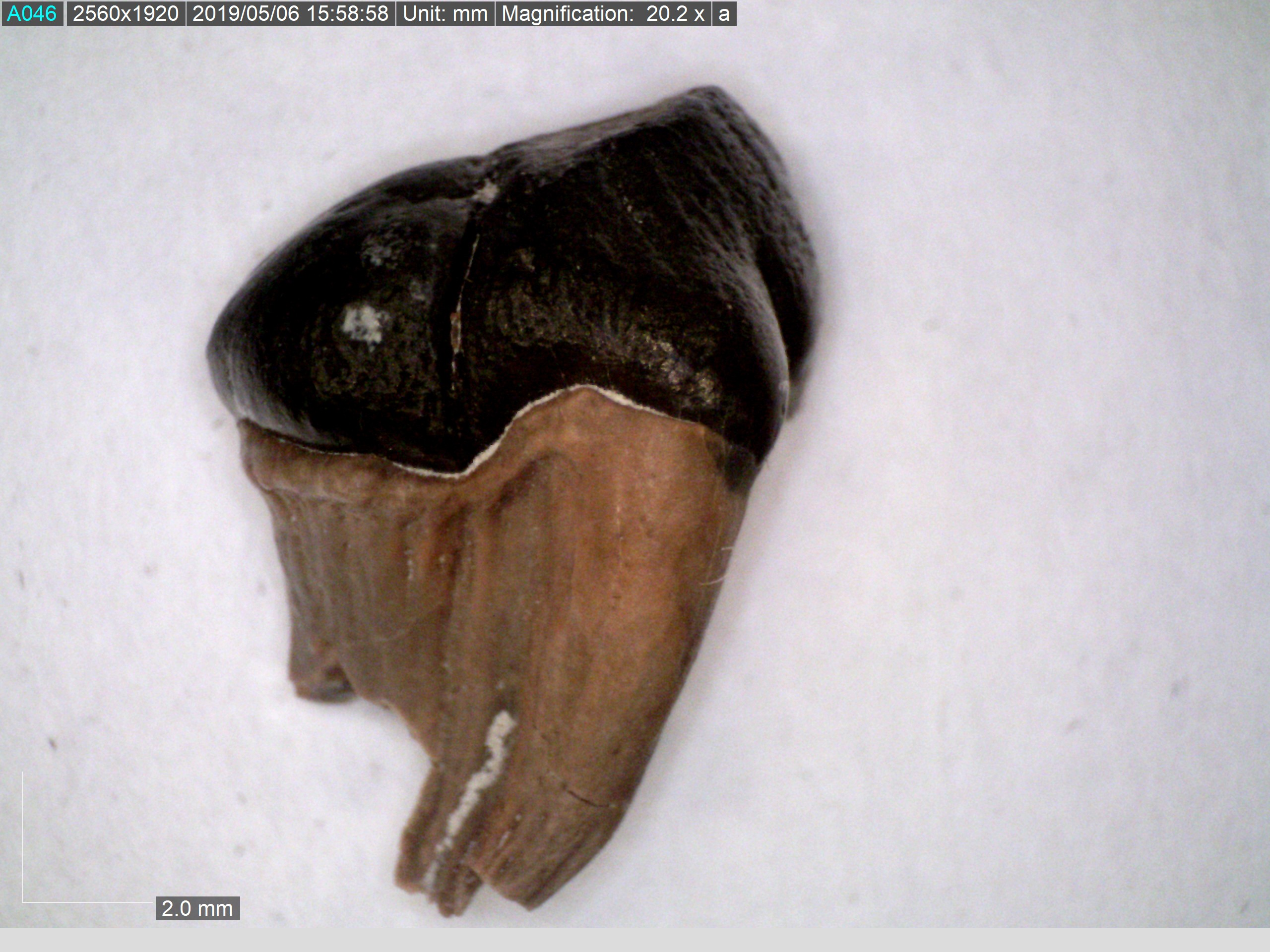 I took this photo, with permission, at the Royal Tyrrell Museum Collections.